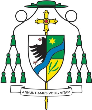 Coat of arms of Felix Genn as Bishop of Essen